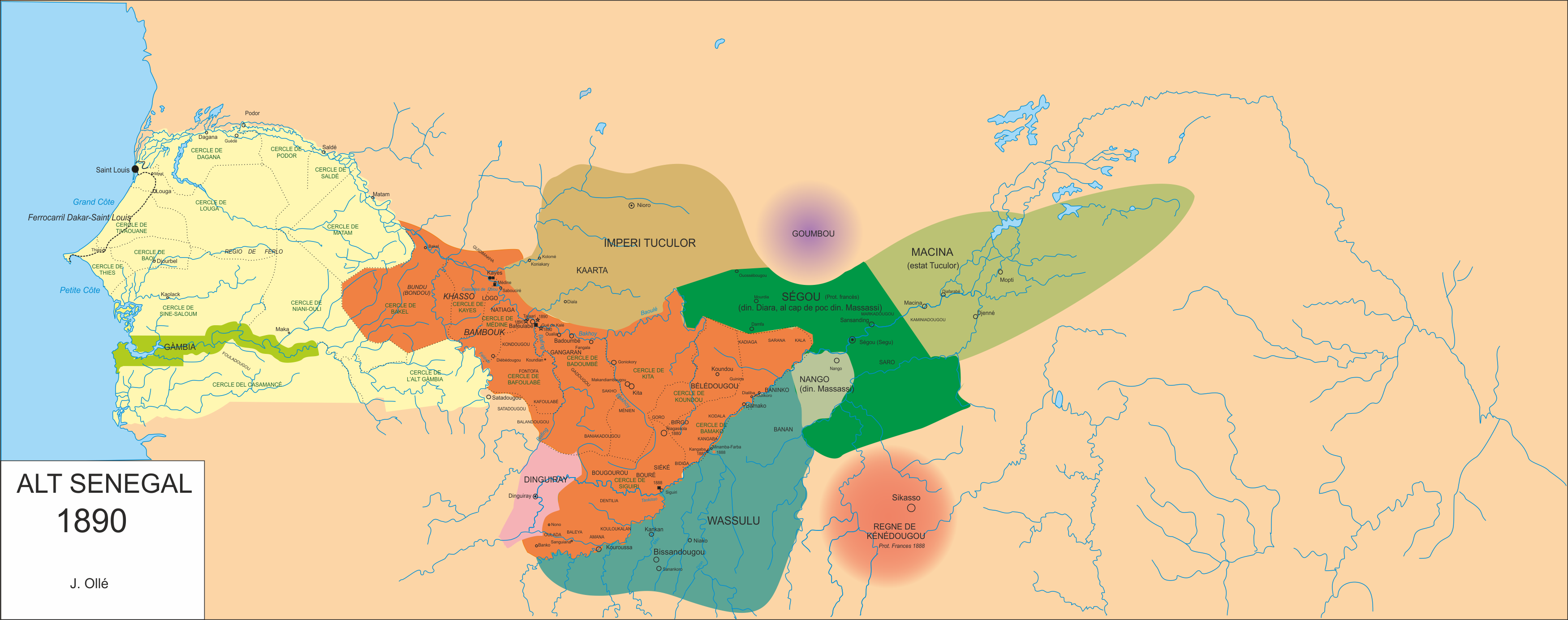 Senegal & Mali 1890, I